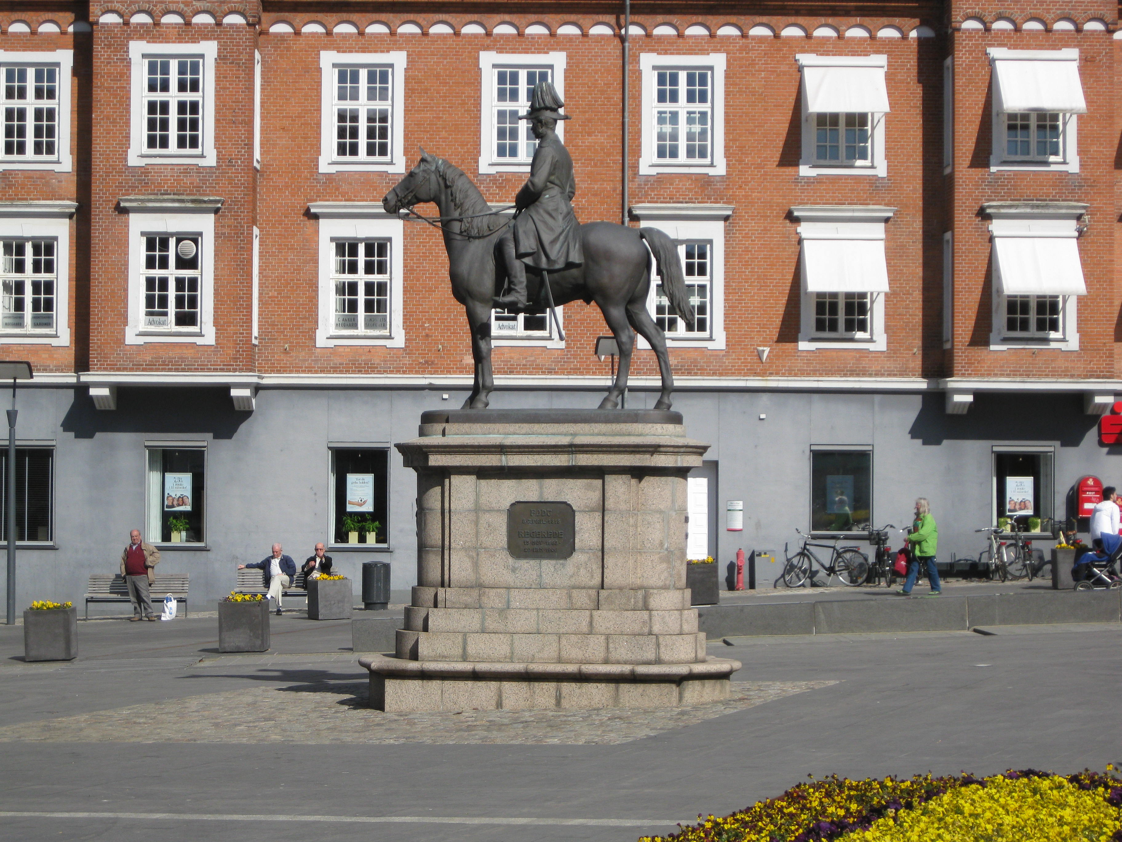 Statue of King Christian the 9th at the square "Schweizerpladsen" in Slagelse. The town is located in West Zealand, Denmark.